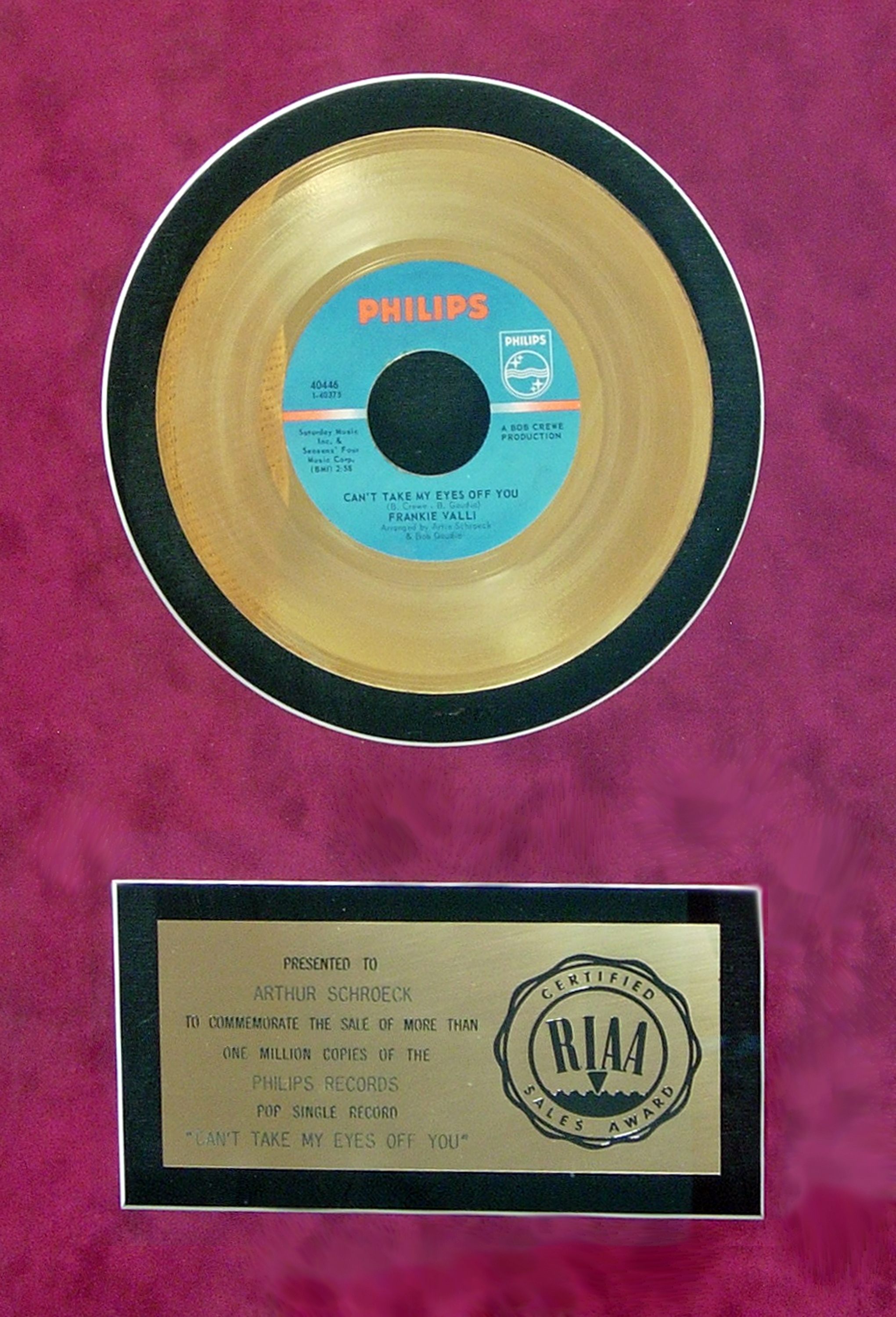 Gold record presented to American musician Artie Schroeck